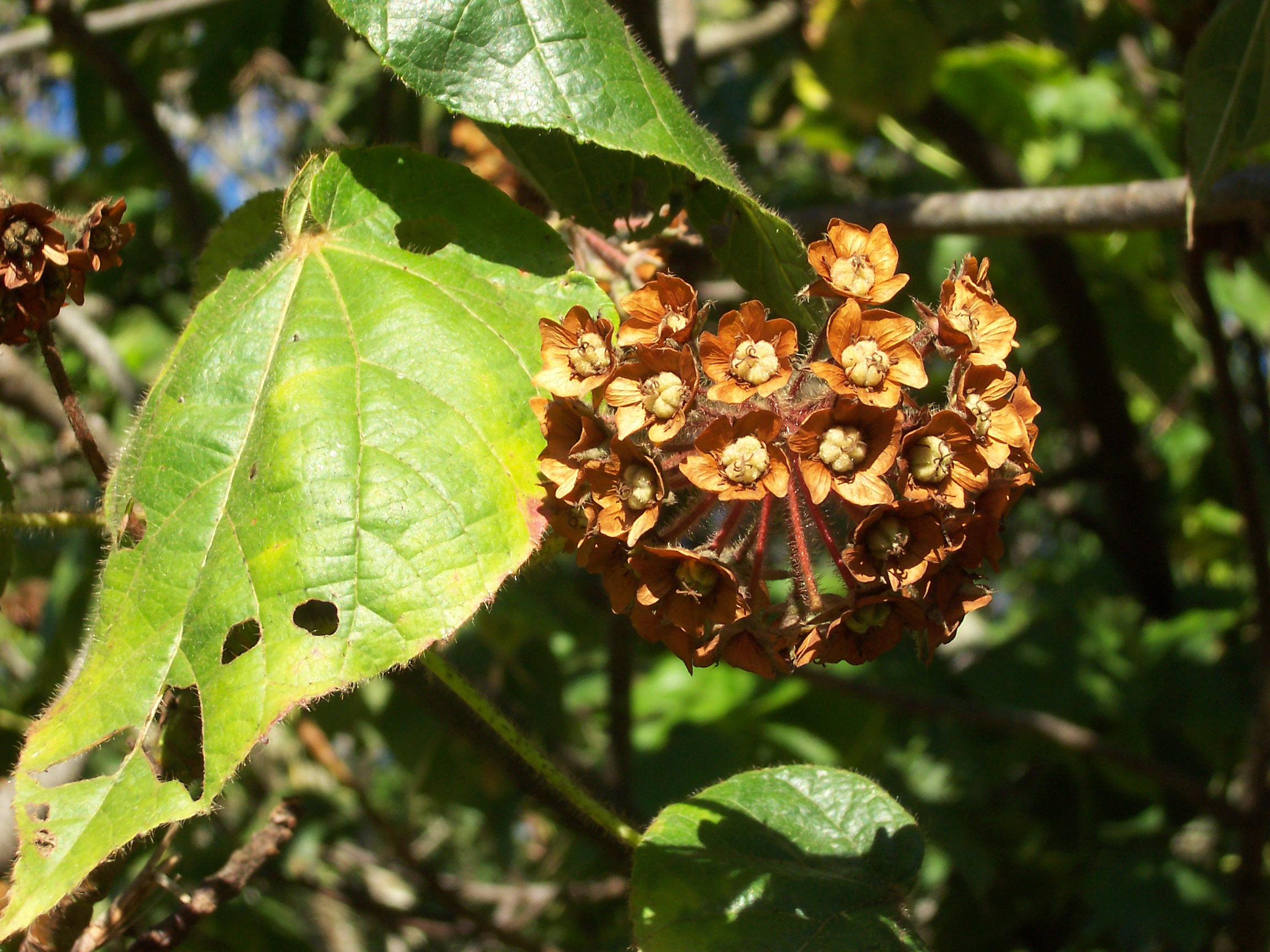 Dried inflorescences of Dombeya pilosa (an endemic spécies of Réunion island) with unripen fruits, photographed near the village of Notre-Dame-de-la-Paix (french commune of Le Tampon)